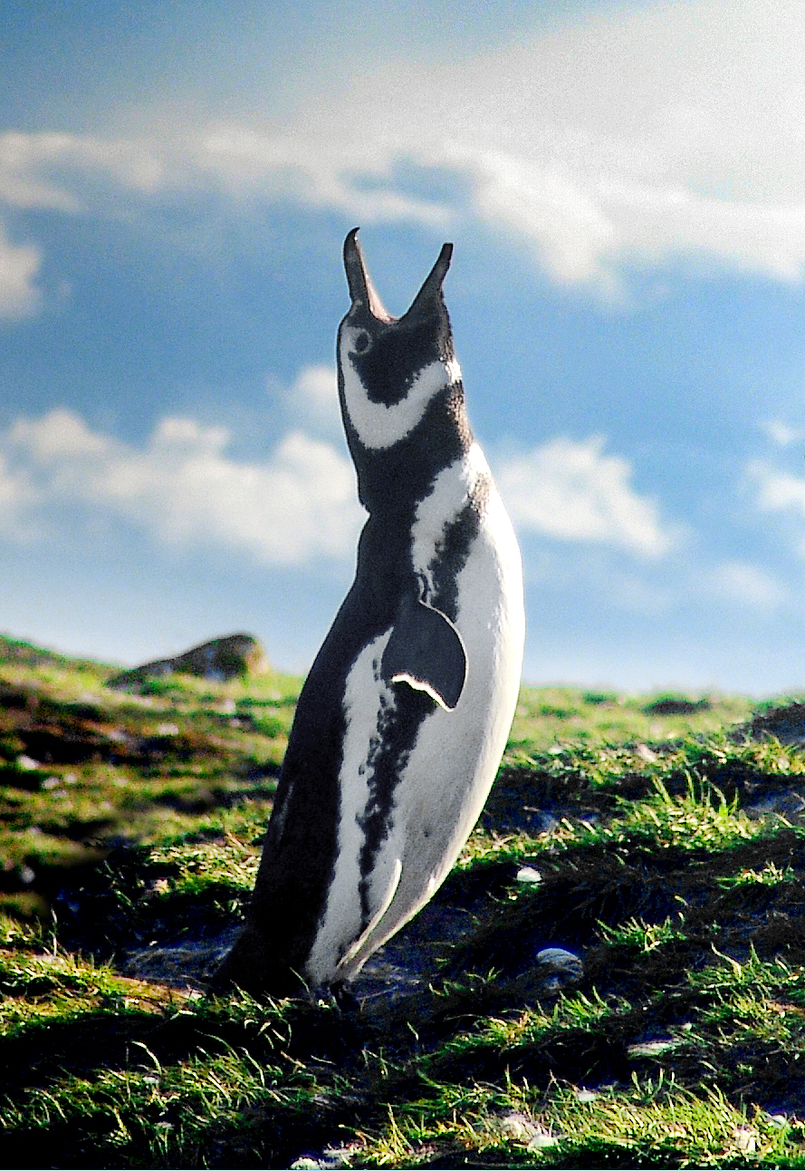 Magellanic Penguin (Spheniscus magellanicus). Taken on Isla Magdalena, an uninhabited island in the Strait of Magellan in Southern Chile. The Magellanic Penguins bray like donkeys...very funny sounding.